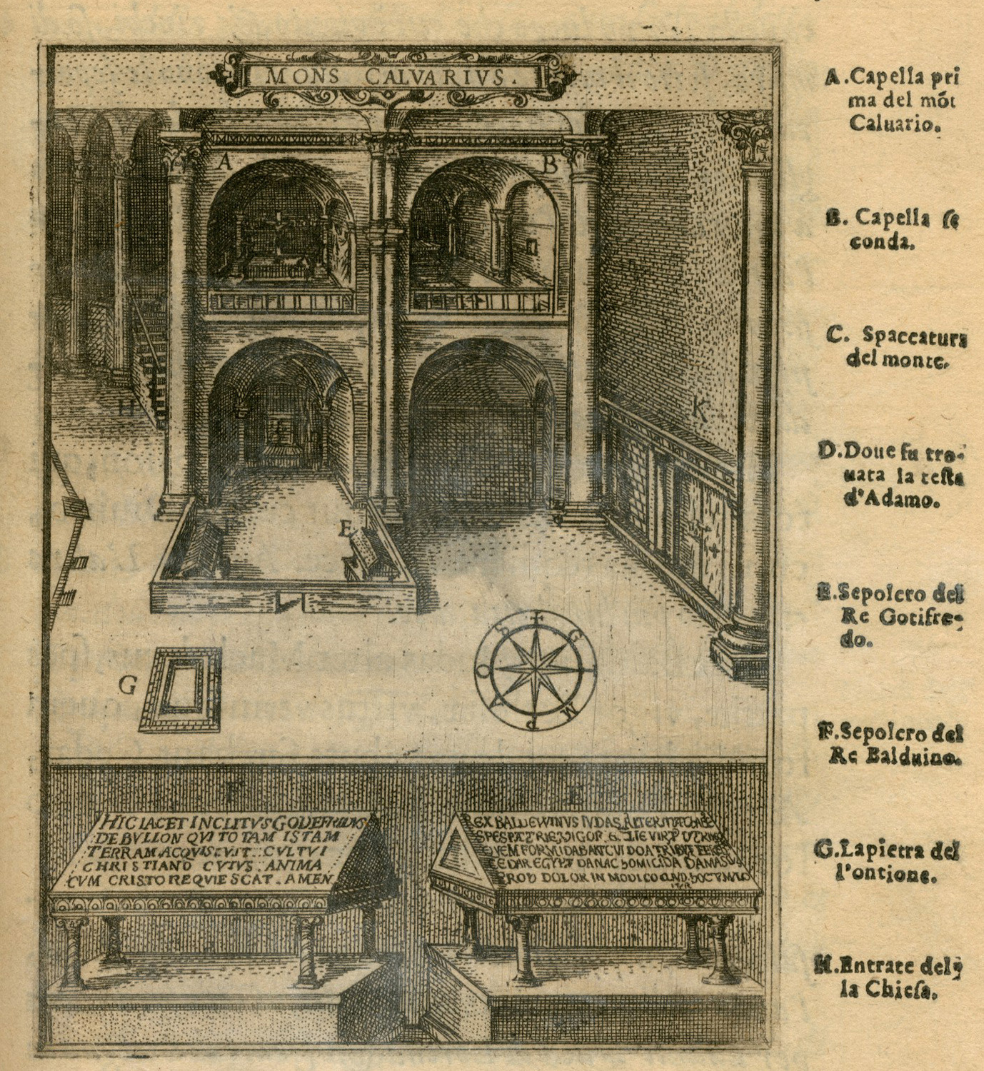 Jean Zuallart. Il devotissimo viaggio di Gerusalemme fatto, & descritto in sei libri dal Sig. Giovanni Zuallardo, Cavaliero del Santiss Sepolcro di N.S. l'anno 1586, Rome, F. Zanetti & Gia Ruffinelli, MDLXXXVII (1587), p. 203